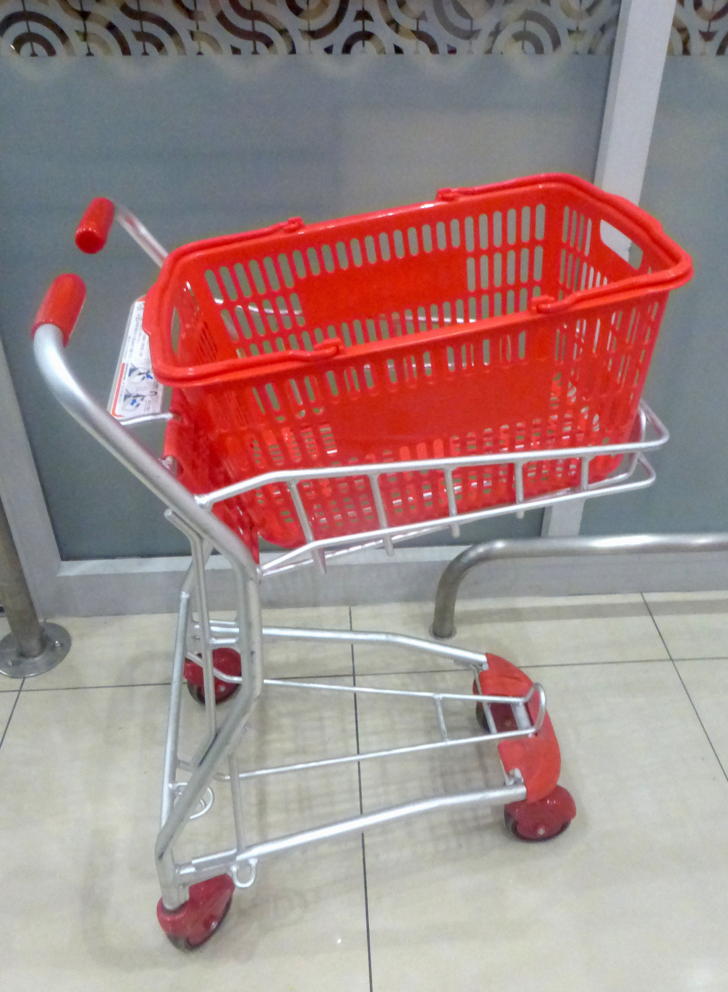 A shopping cart in Japan